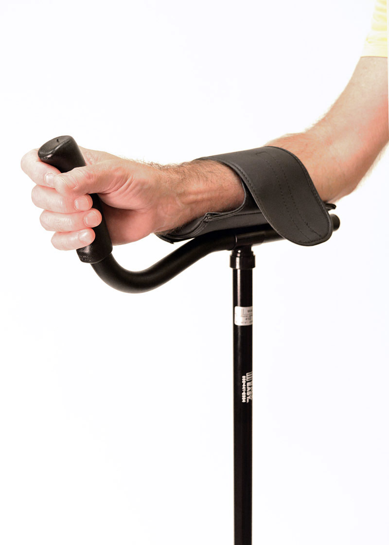 Photograph of the top part of a platform crutch showing the platform (or trough) with its velcro-strap and grip. A single bolt below the platform allows adjusting the length from platform to grip as well as its angle.